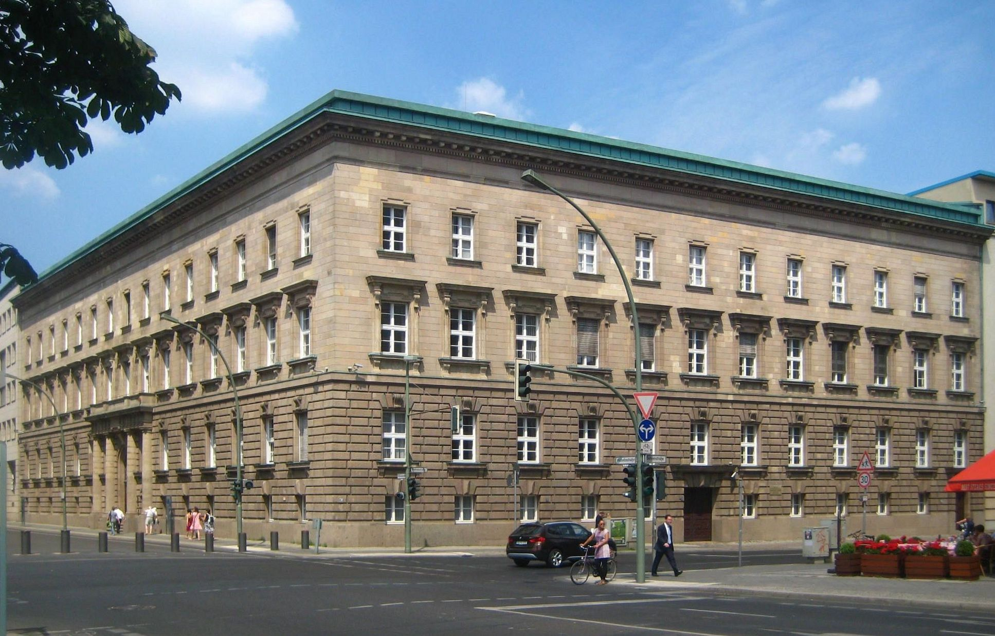 Annex building of the former Prussian Ministry of Education at Wilhelmstraße 60, corner of Behrenstraße (on the right); built 1901-1903, architect: Paul Kieschke; the building now houses offices of the Bundestag, the German federal parliament.